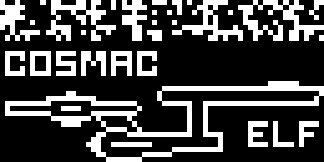 Iconic COSMAC Elf computer Pixie graphics example screen snapshot of Star Trek-like spaceship and program code via Octo Chip-8 emulator in 64x32 resolution.